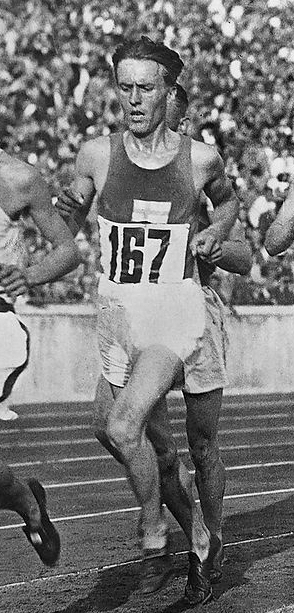 Volmari Iso-Hollo at the 1936 Olympics